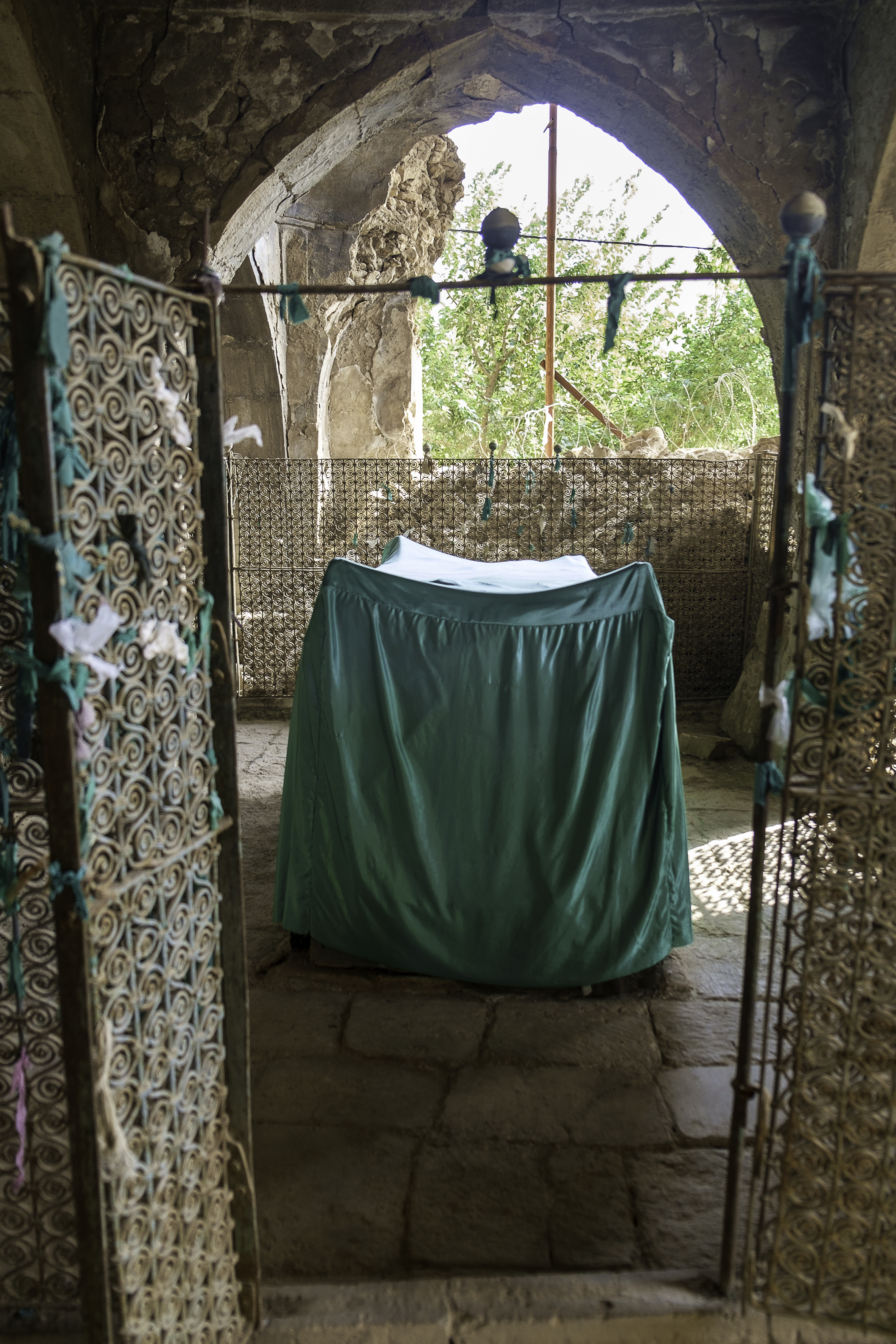 Tomb of Nahum